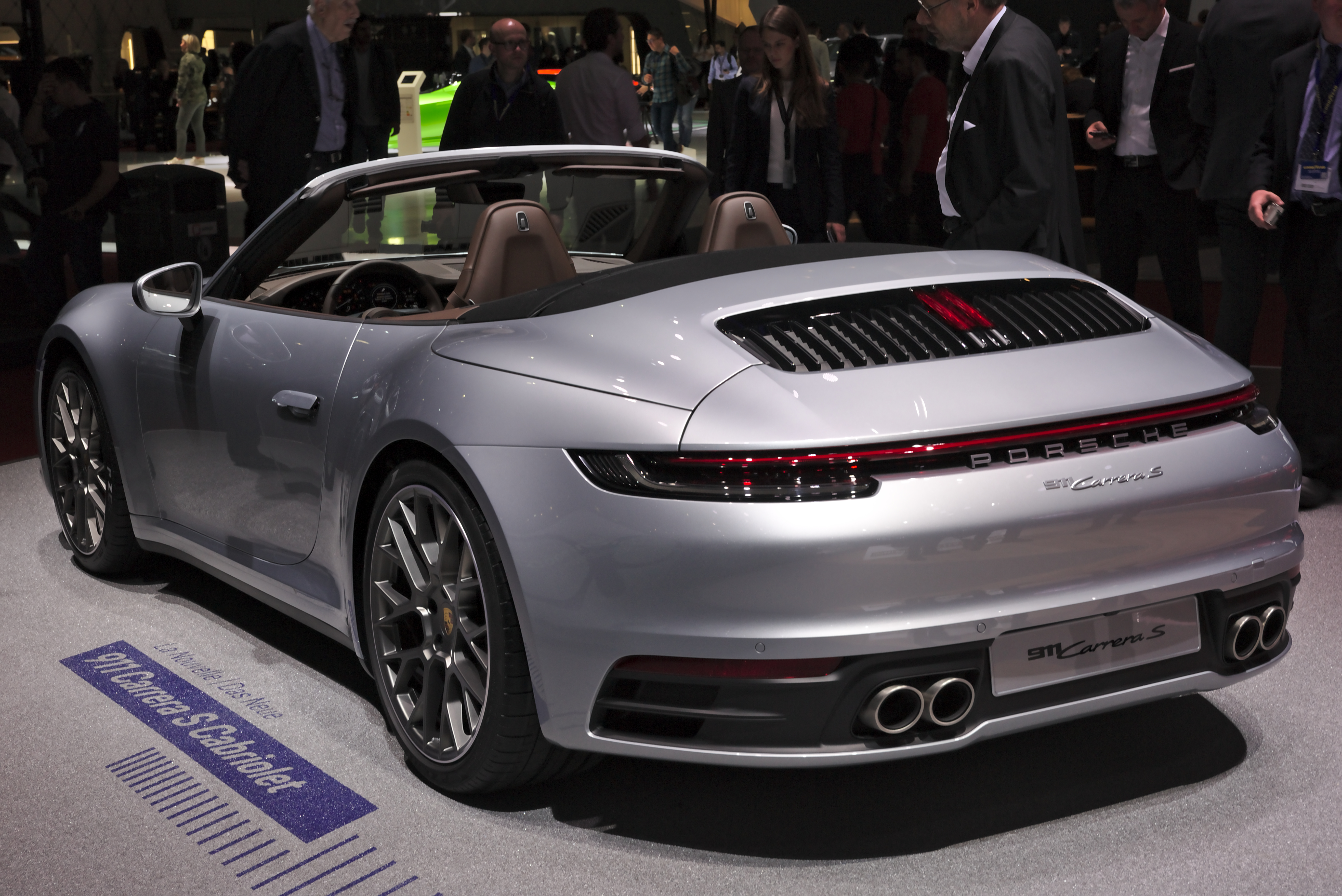 Porsche 992 Cabrio Carrera S at Geneva Motor Show 2019